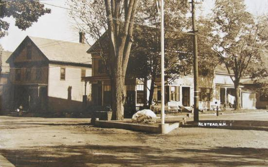 Street scene, Alstead, New Hampshire